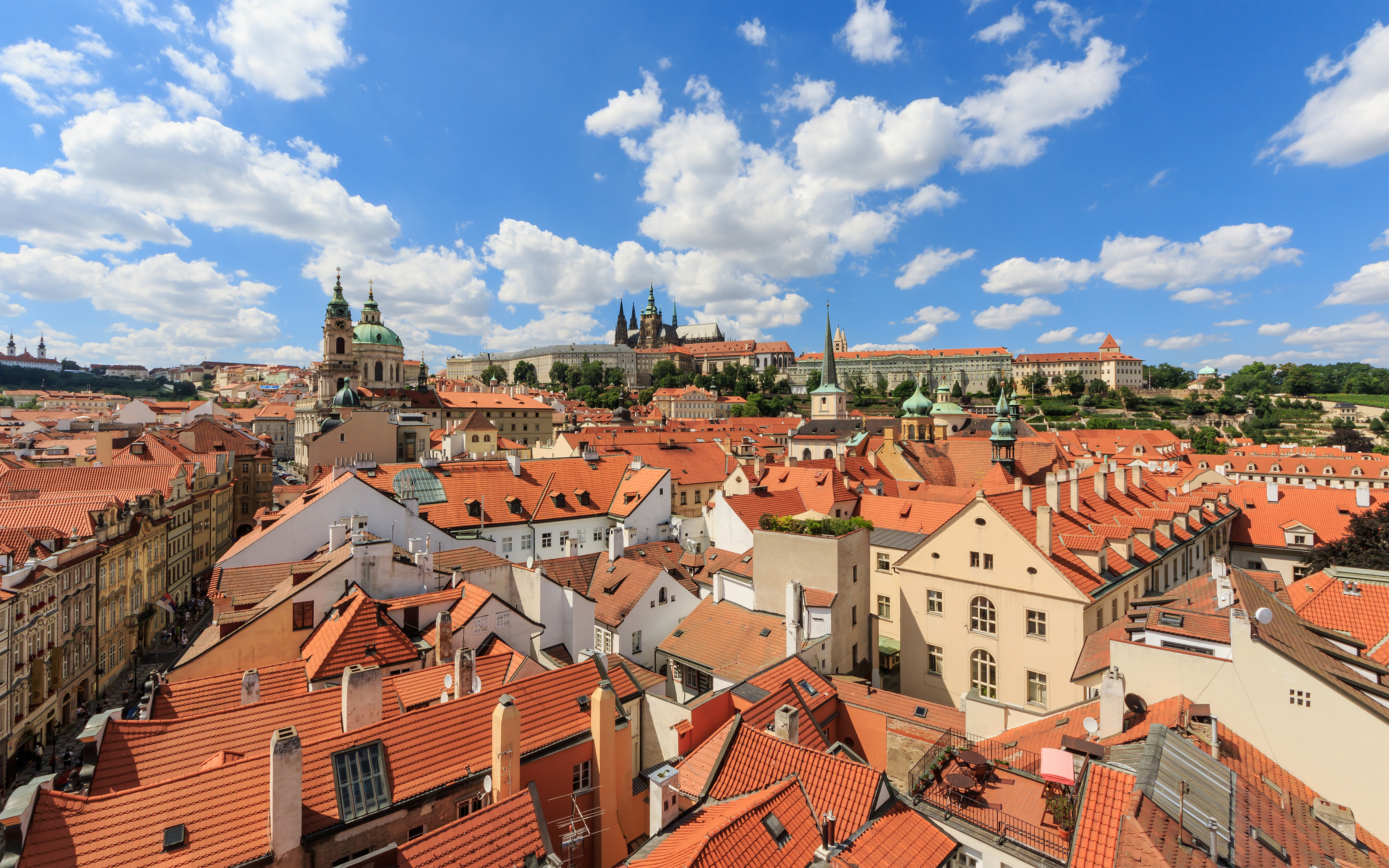 View from the Lesser Town tower of Charles Bridge in Prague (Czech Republic)